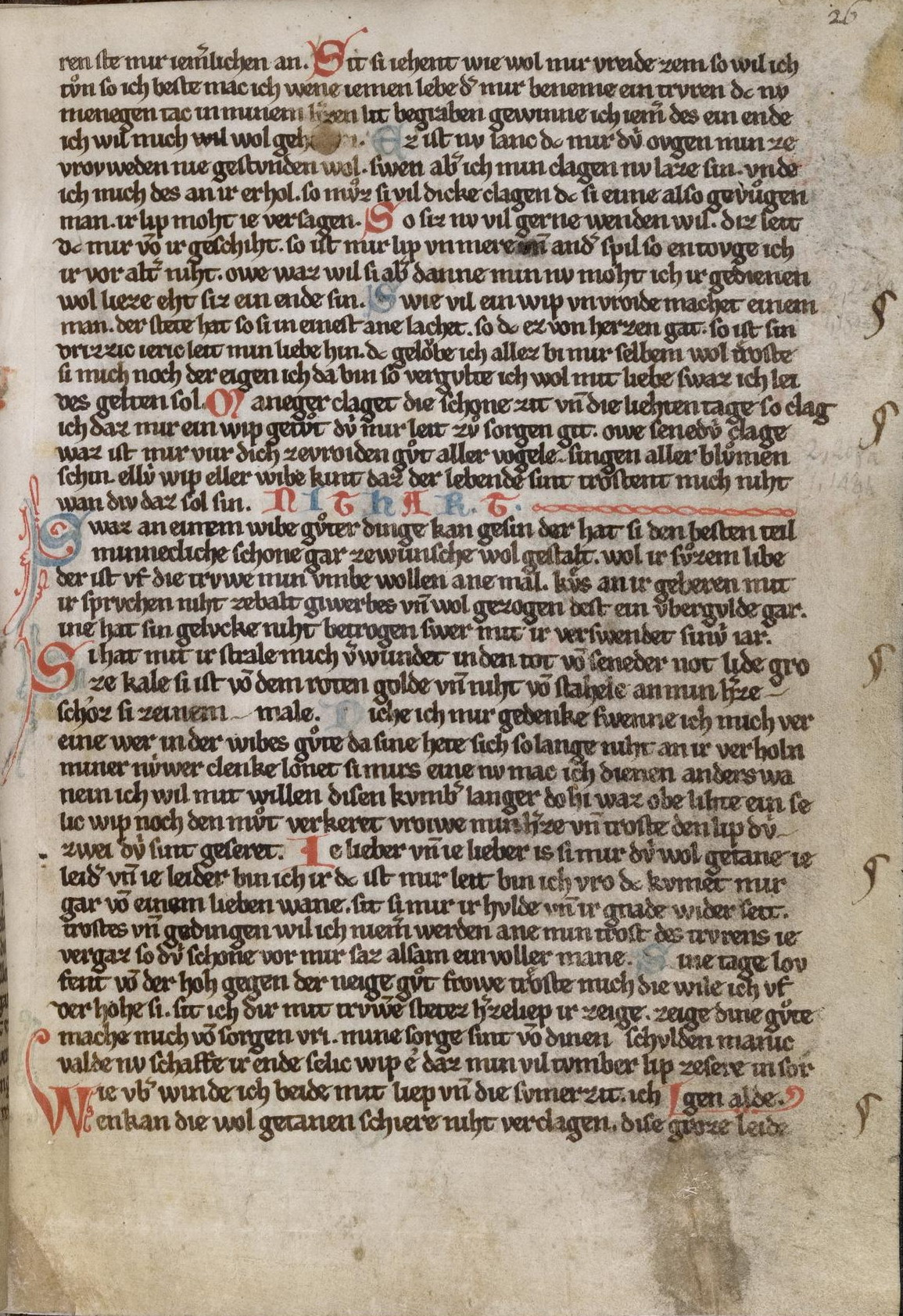 A page (folio 26r) from the Kleine Heidelberger Liederhandschrift